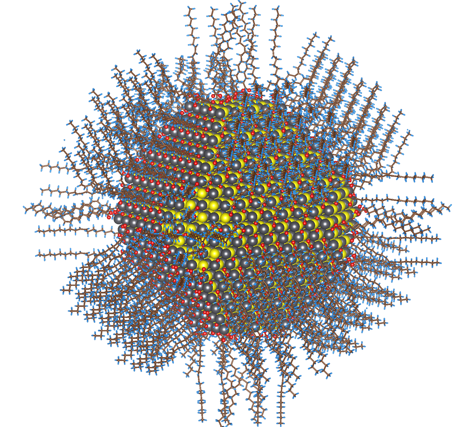 Complete atomistic model of the colloidal lead sulfide (selenide) nanoparticle also known as quantum dot similar as published in Science 344, 1380 (2014). Diameter=5nm, Wulff Ratio(111/100)=0.82, passivated with oleic acid, oleyl amine and hydroxyl ligands.